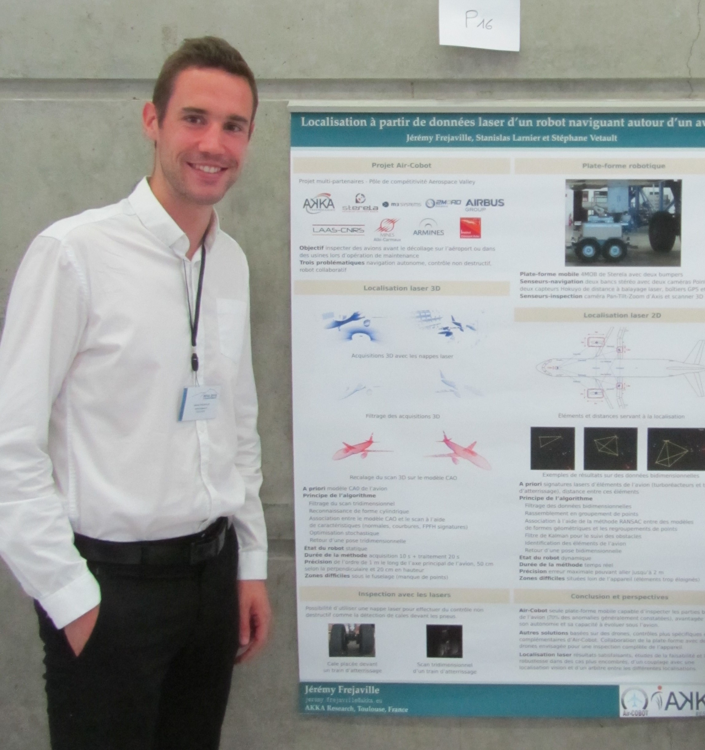 Jérémy Frejaville, innovation engineer at Akka Research, presenting a poster on Air-Cobot at Reconnaissance des Formes et Intelligence Artificielle (RFIA) congress 2016, Clermont-Ferrand, France